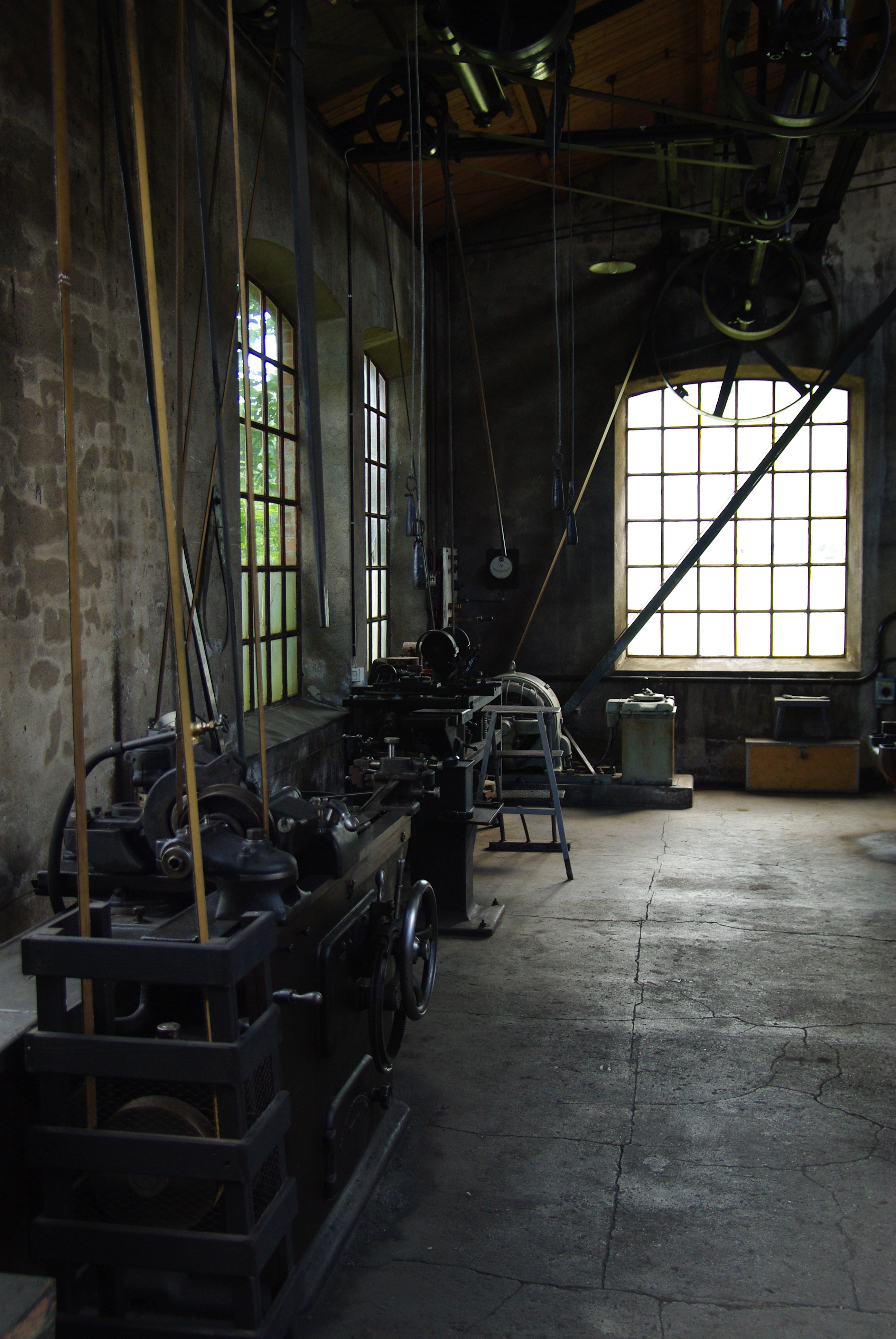 interior of old mechanical engineering, historical industri museum